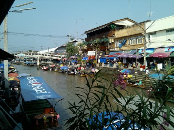 Amphawa Market in Amphoe Amphawa, Samut Songkhram Province, Thailand.